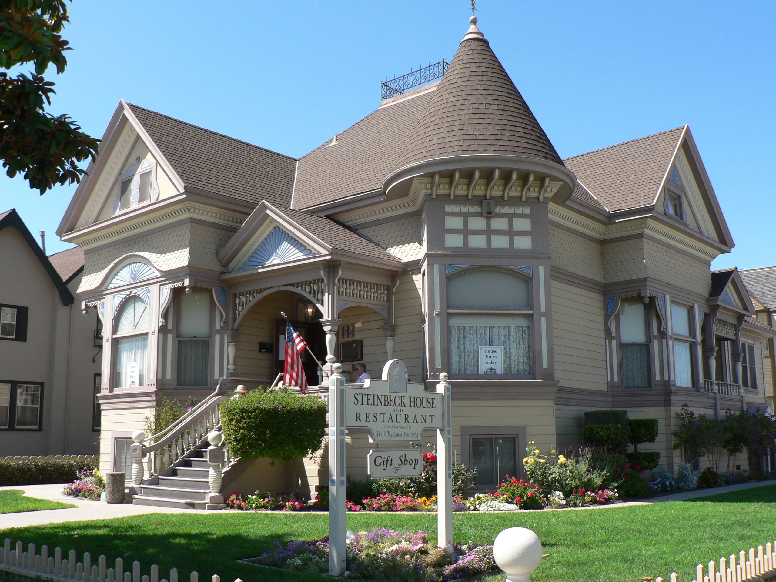 The following is the author's description of the photograph quoted directly from the photograph's Flickr page. "A couple of blocks from the Center. "